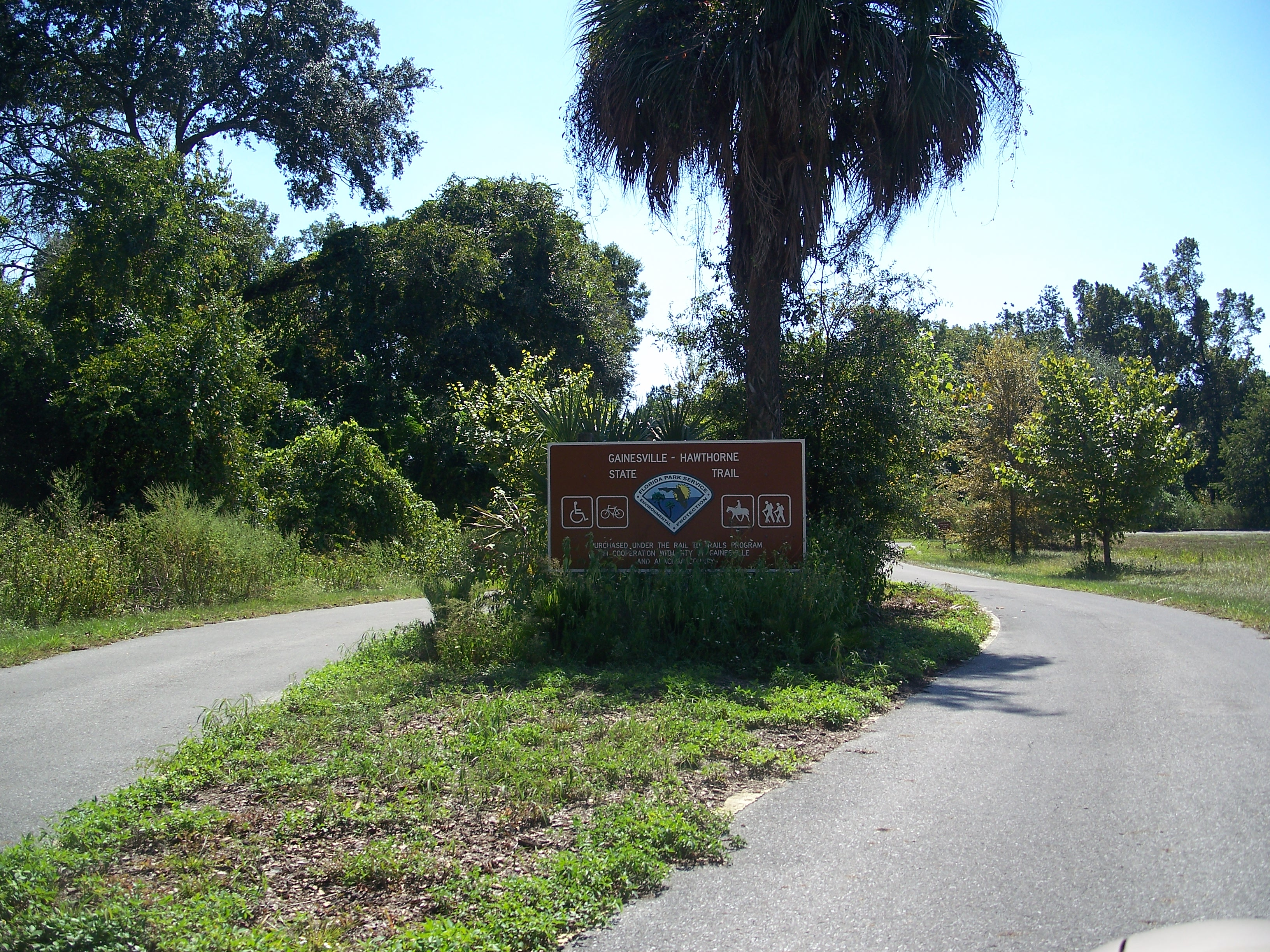 Gainesville-Hawthorne Trail State Park: Hawthorne: Eastern terminus of the trail